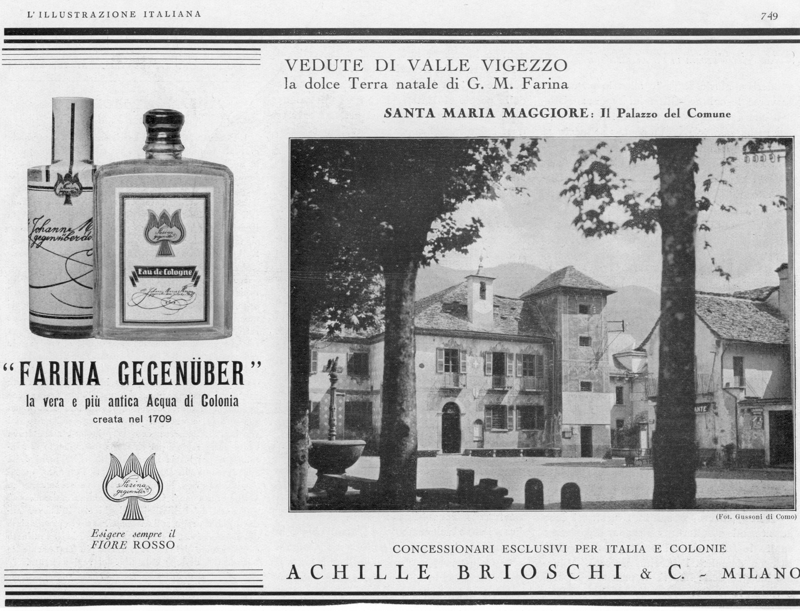 Townhall and market place 1928